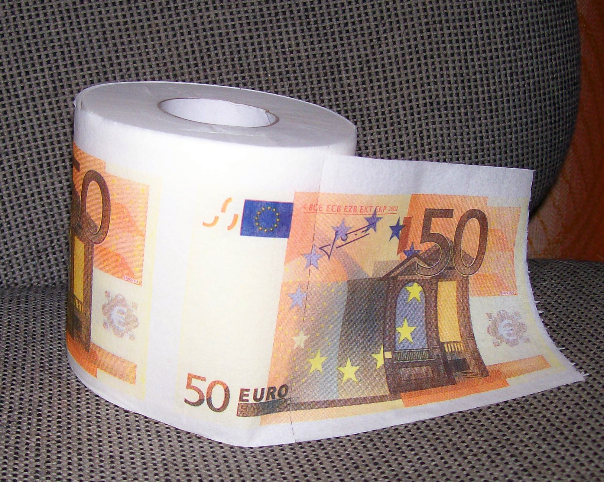 Papier toaletowy (Toilet paper)